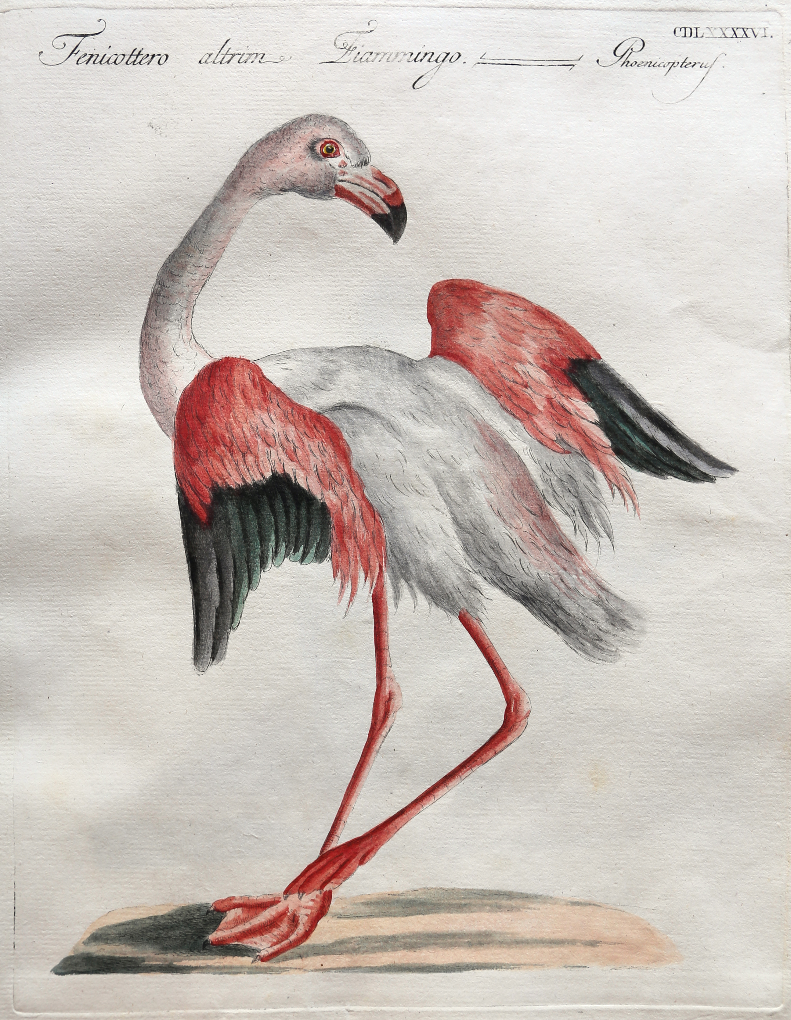 Ornithologia methodice digesta (Crusca)